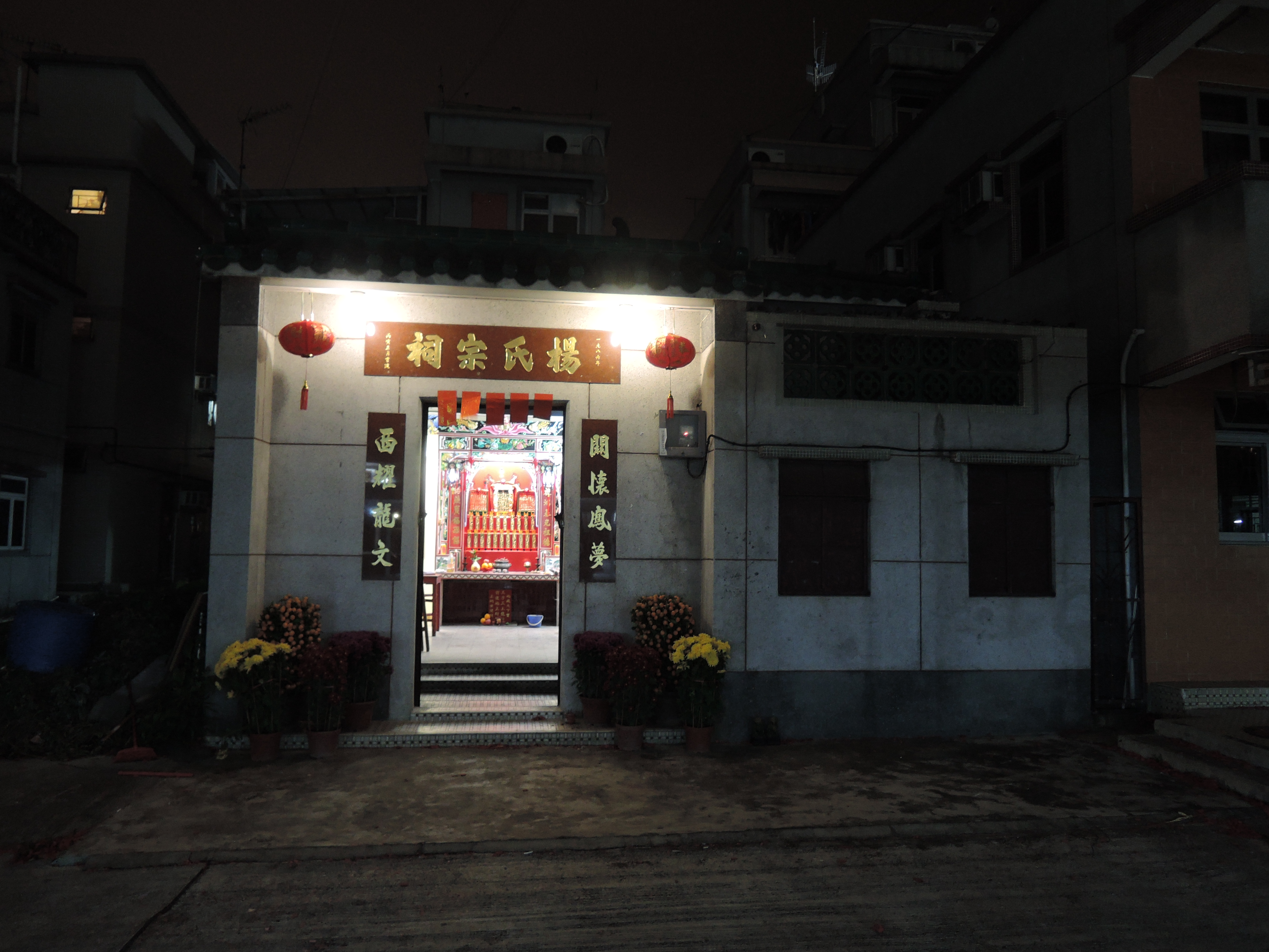 Yeung's temple in Yeung Uk Tsuen at Yuen Long